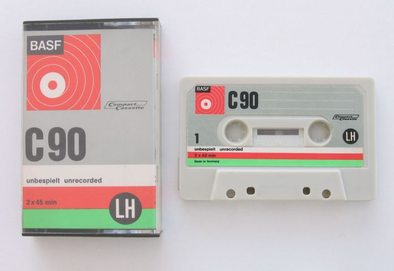 Compact Cassette produced by BASF in Germany (1973/74)